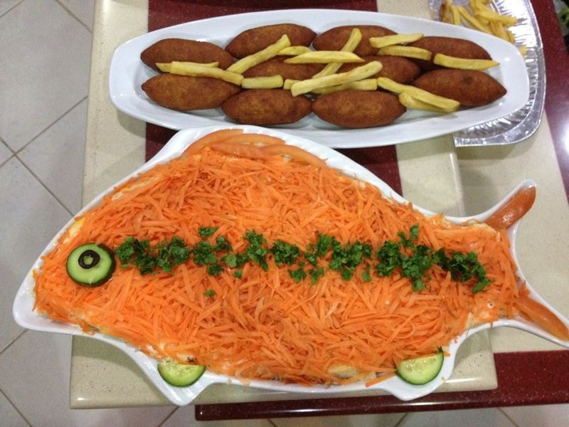 Fried kibbeh Middle Eastern dish